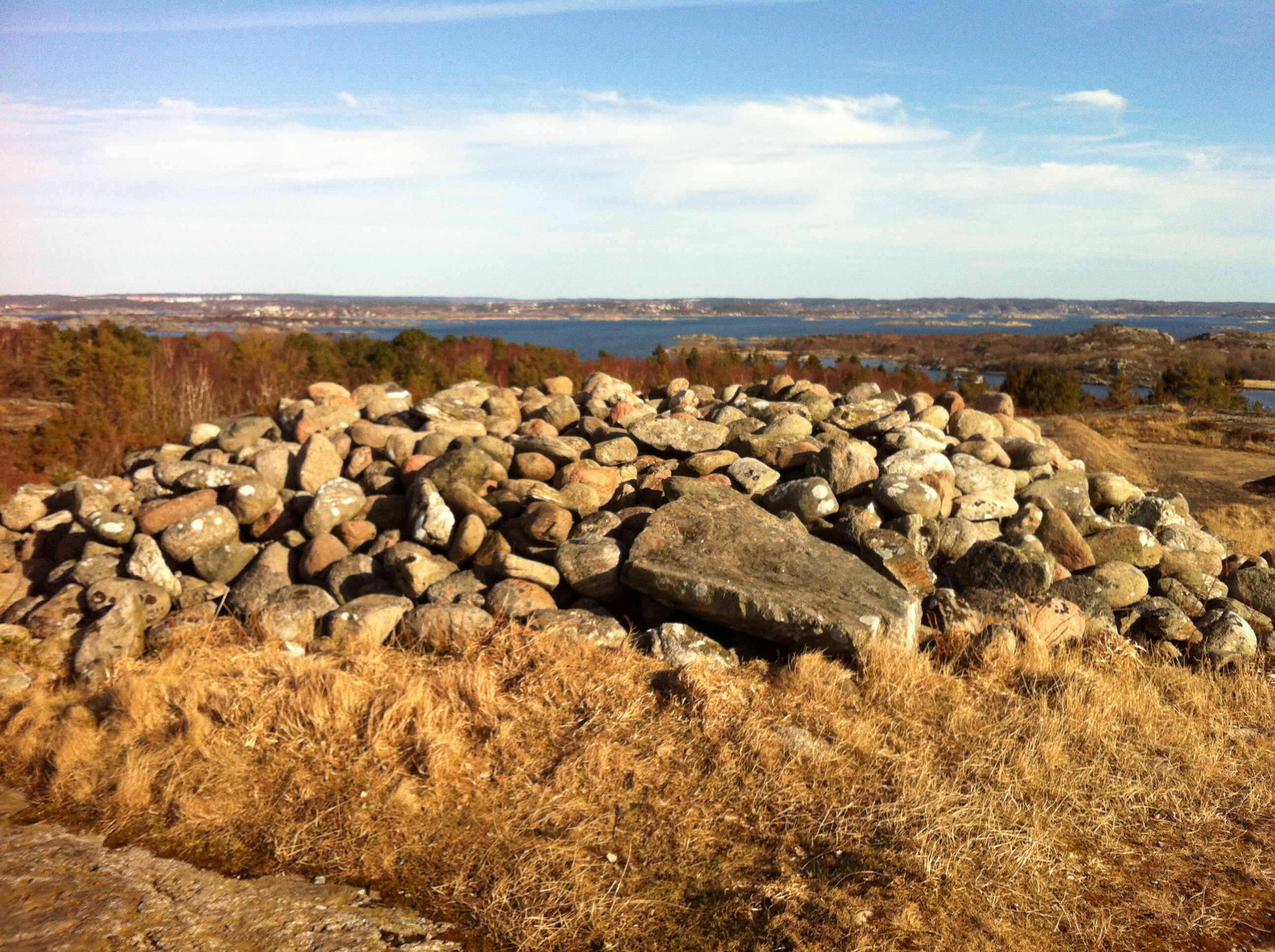 A cairn at Styrö, Göteborg, 2012